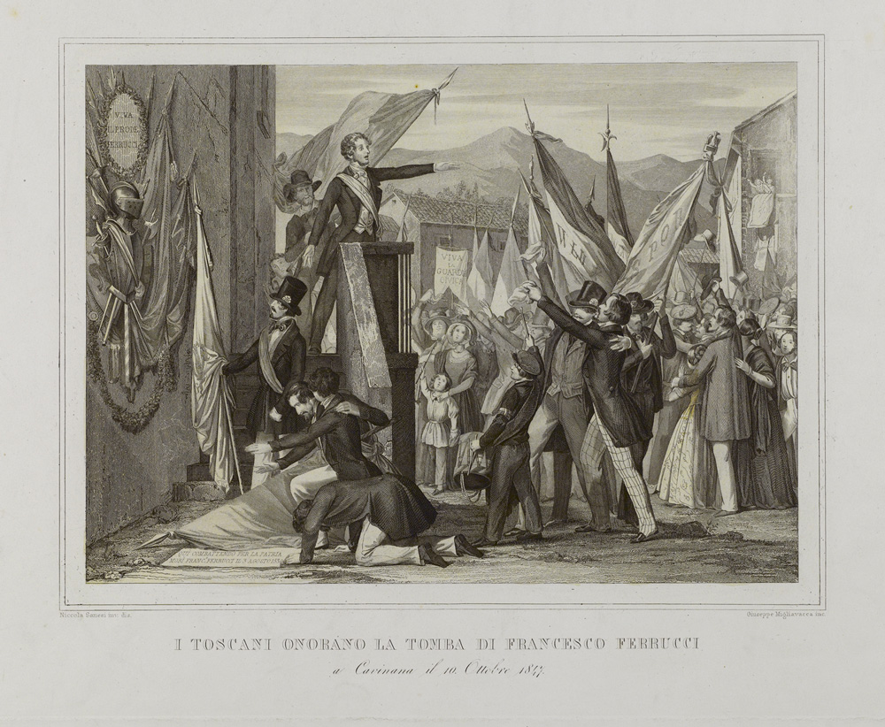 Toscani Honoring the Tomb of Francesco Ferrucci